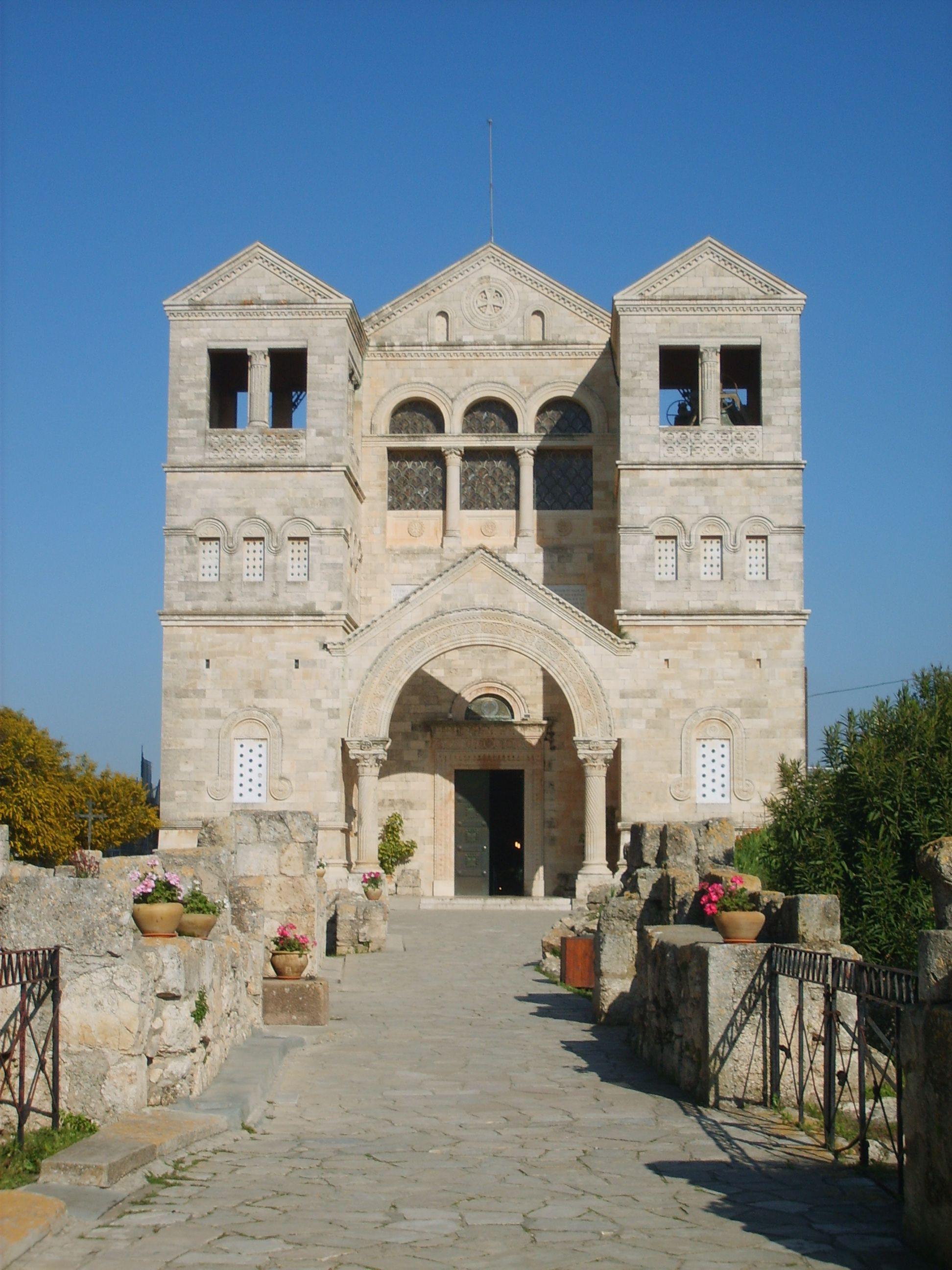 Catholic Church of the Transfiguration on Mount Tabor (run by Franciscans).